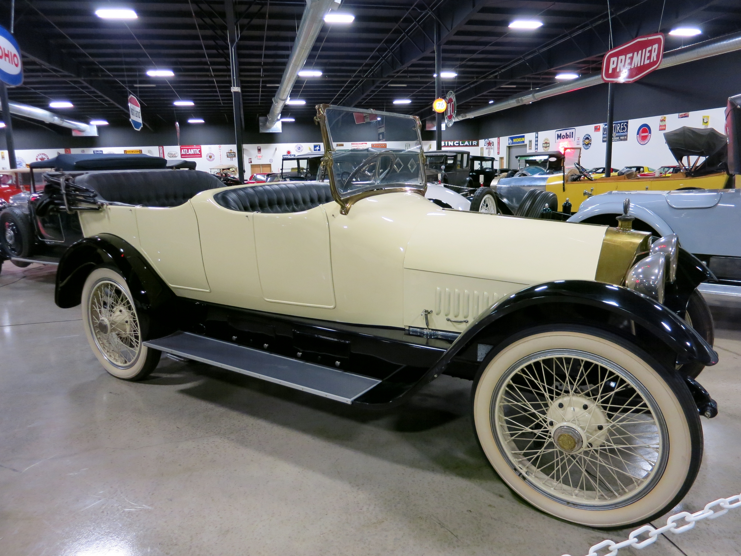 1916 Owen Magnetic Gasoline-Electric Hybrid Tupelo Automobile Museum Tupelo, Mississippi